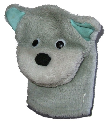 simple hand puppet